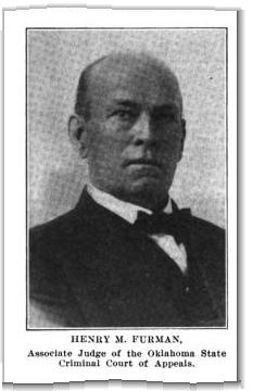 Magazine photograph of Judge Henry Furman, Oklahoma Criminal Court of Appeals